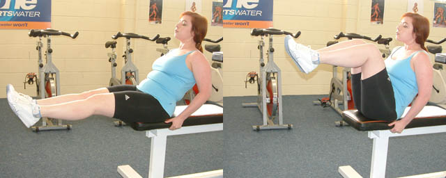 Thanks go to the model, Emily.